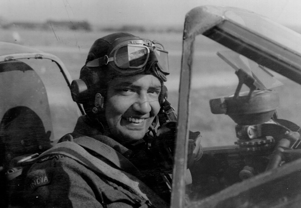 Squadron Leader Karun Krishna (Jumbo) Majumdar was awarded the Distinguished Flying Cross - the first to be awarded to an Indian Air Force officer - for the gallantry and leadership that he displayed while serving as the commanding officer of No 1 Squadron, Indian Air Force, during the retreat from Burma in 1942. He was subsequently awarded a Bar to the DFC in recognition of his courage and skill while serving as a tactical reconnaissance pilot with No 268 Squadron, Royal Air Force, during the liberation of France in 1944. Squadron Leader Majumdar was the only Indian Air Force officer to receive two DFCs during the Second World War.